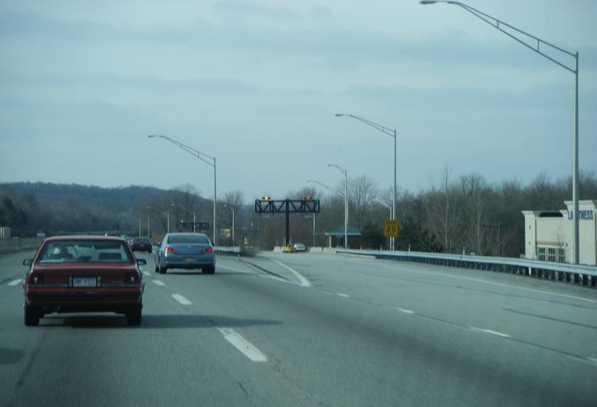 The Virginia Drive E-ZPass only slip ramp (exit 340) off the westbound Pennsylvania Turnpike (Interstate 276) in Fort Washington, Pennsylvania